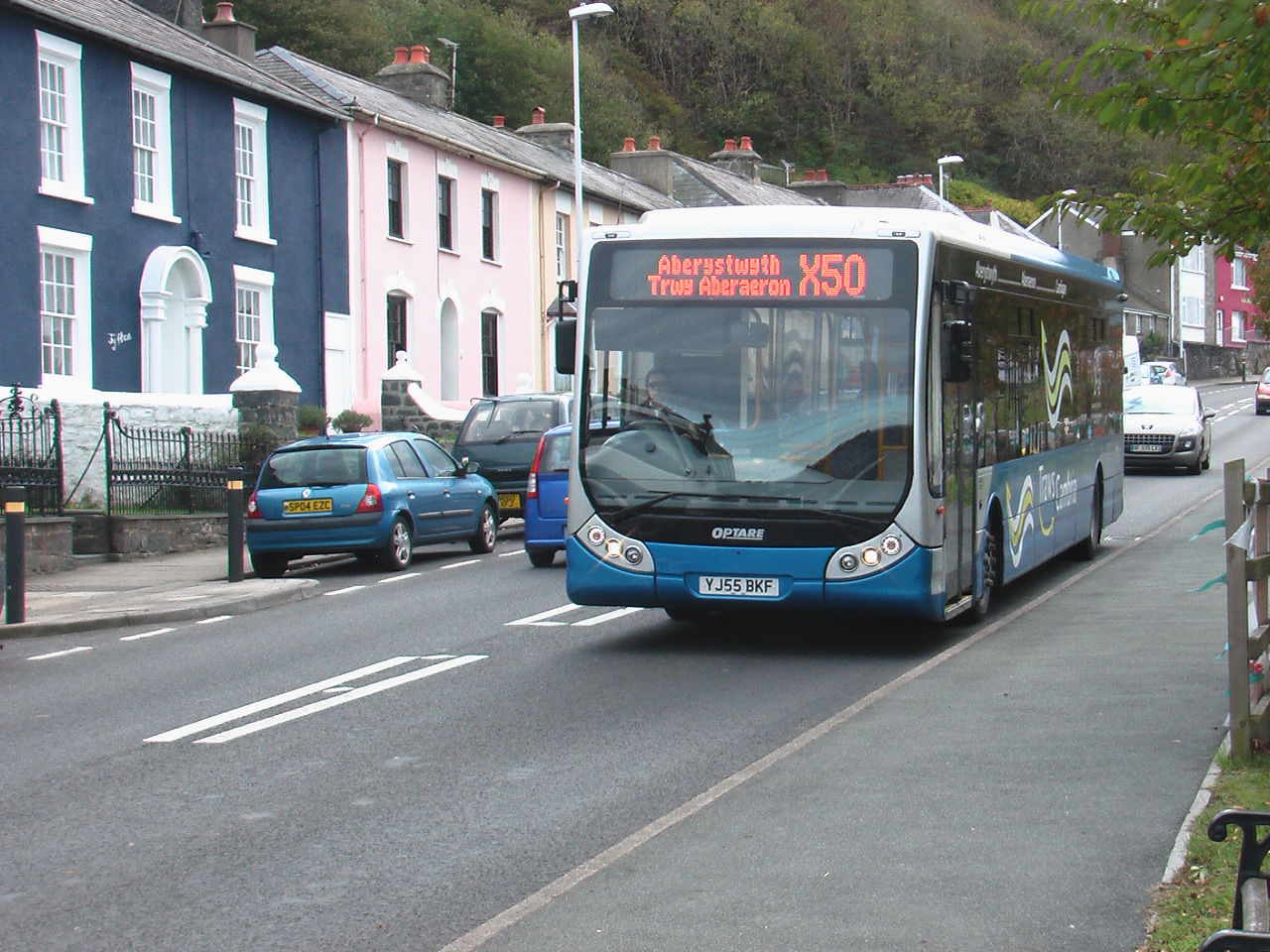 Photograph of Richards Bros' Optare Tempo YJ55BKF in Aberaeron. The vehicle is branded for the TrawsCambria X50 service.